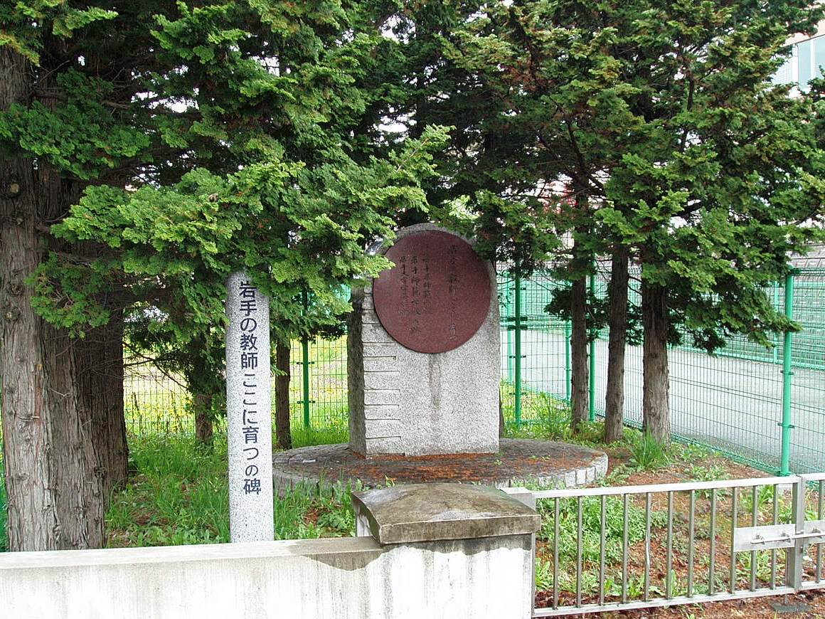 A memorial of former Takamatsu Campus (closed in 1965), Iwate University, located in Morioka, Iwate Prefecture, Japan.